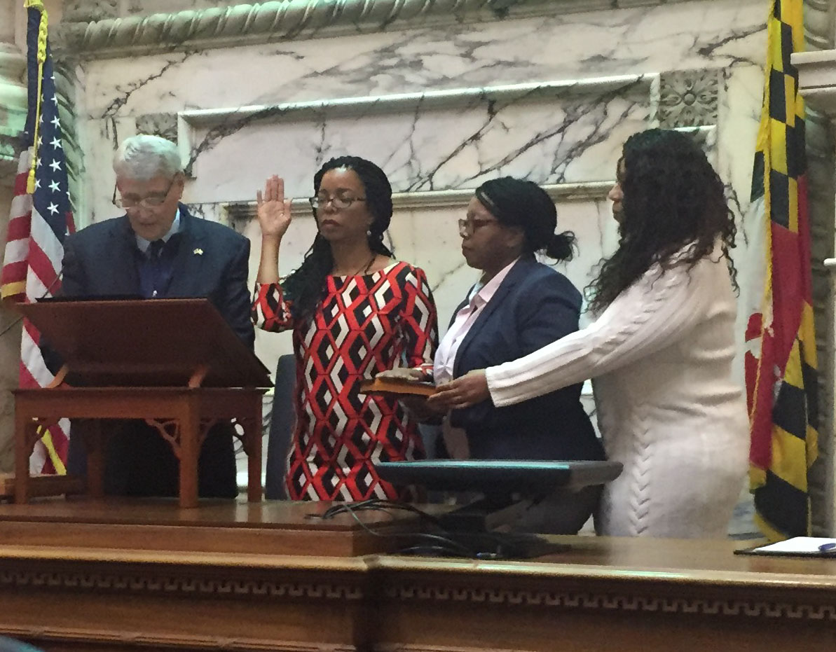 new Delegate Lewis being sworn in by House Speaker Mike Busch